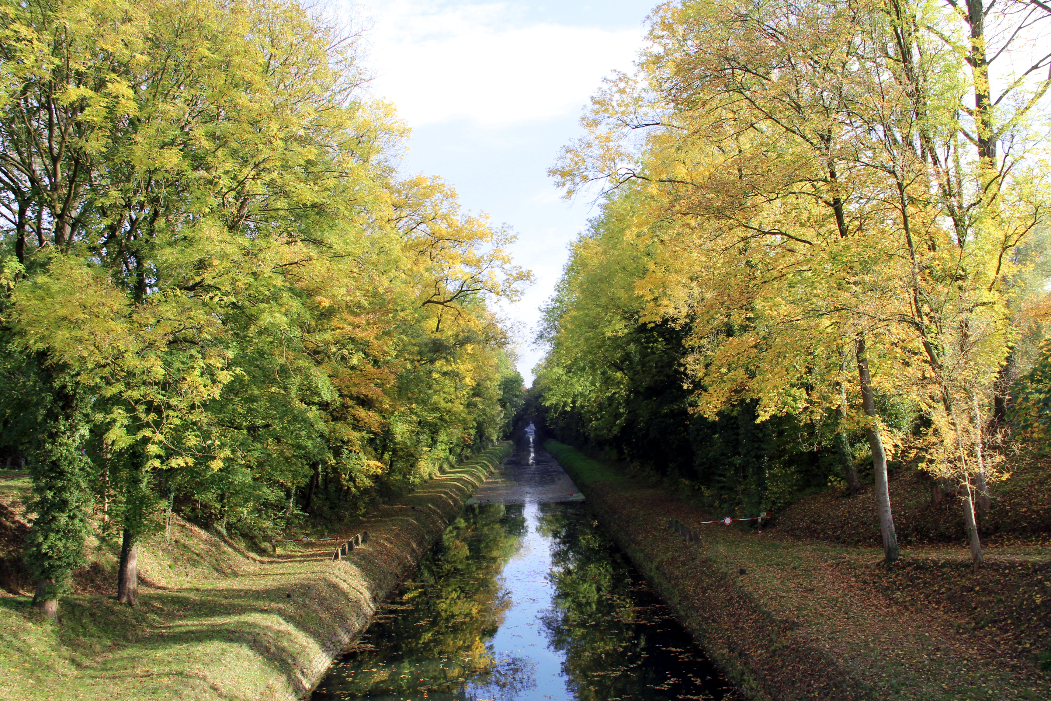 Maubray (Belgium), Pommerœul-Péronnes canal (1823-1826) known locally with the name "la tranchée" and located upstream of the "Pont Royal" in the Morlies hamlet.